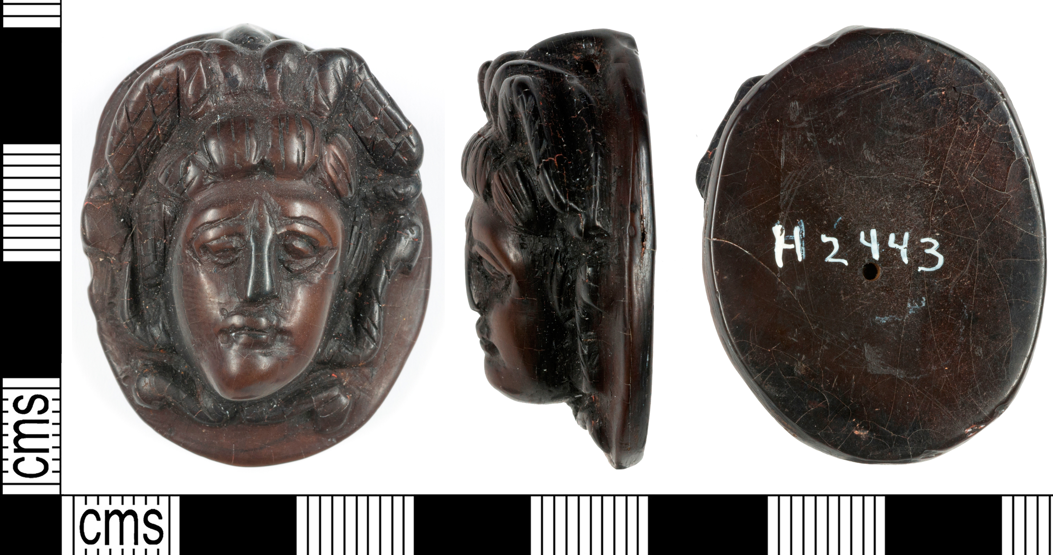 Oval Medusa pendant. Small suspension hole drilled through top. Medusa's small winged head-dress is decorated with scored cross-hatching. Four stylized snakes are arranged with one either side of her face and two emerging from her chin. Both faces are polished. Eboracum describes this as the best of the York Medusa pendants, continuing: "The Gorgon, very well carved in relief, occupies the whole of an upright oval... perforatons for suspension being hidden in the hair." Reflective spectroscopy analyses by Allason-Jones and Jones 2001 produced an optical reflection of 0.2%, identifying the material as true jet.